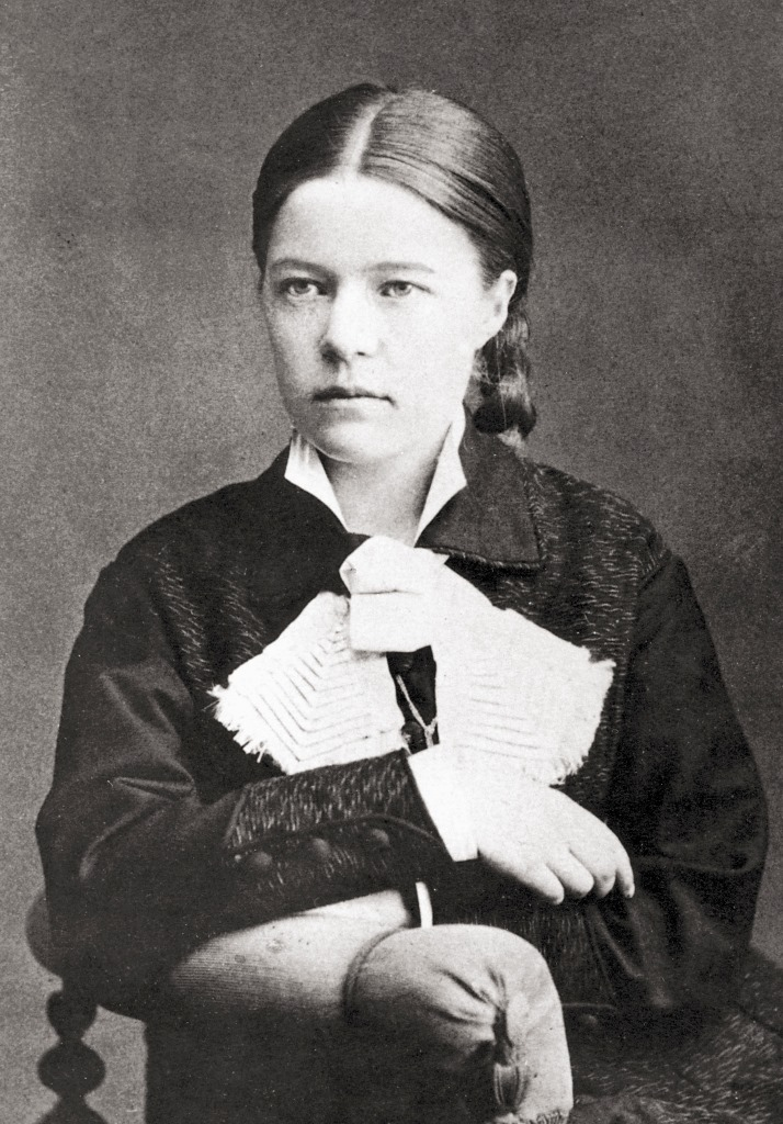 Anna Ollson, Karlstad. Photograph of writer Selma Lagerlöf. Taken in 1881